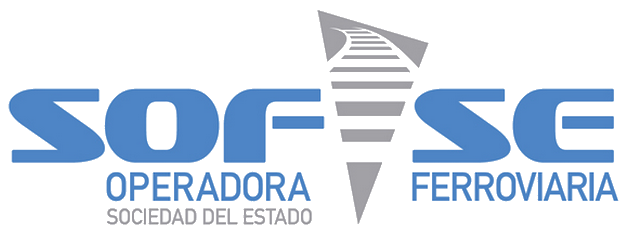 Logo of "SOFSE (Operadora Ferroviaria Sociedad del Estado)", an organism dependent on the Ministry of Transport of Argentina.